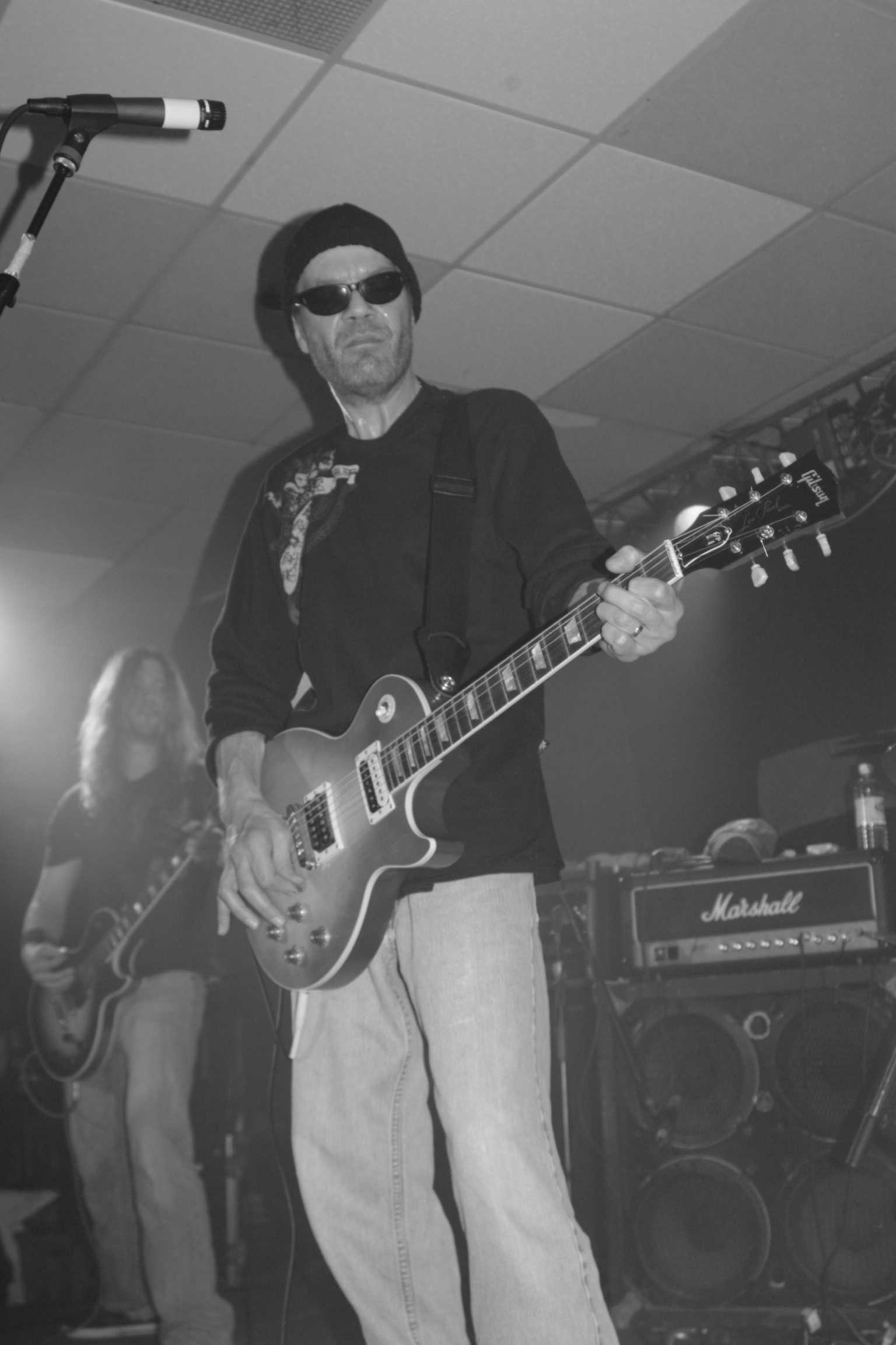 Lead singer Henrik Ostergaard of the band Dirty Looks. Eric S Hoffman Presents- Dirty Looks and Steel at Gullifty's September 26th 2009. Photos by Ted Van Pelt. Licensed Creative Commons for your free use as long as you give a photo credit.